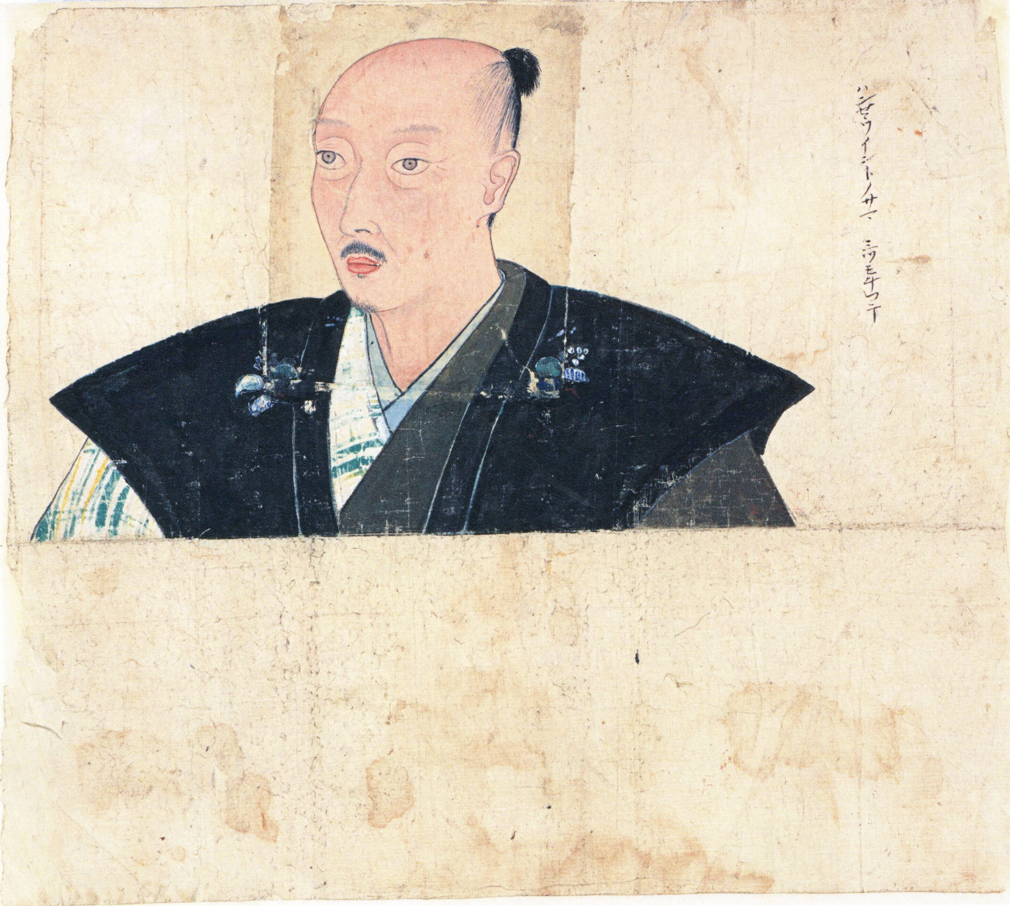 Draft portrait of Ashikaga Yoshiharu